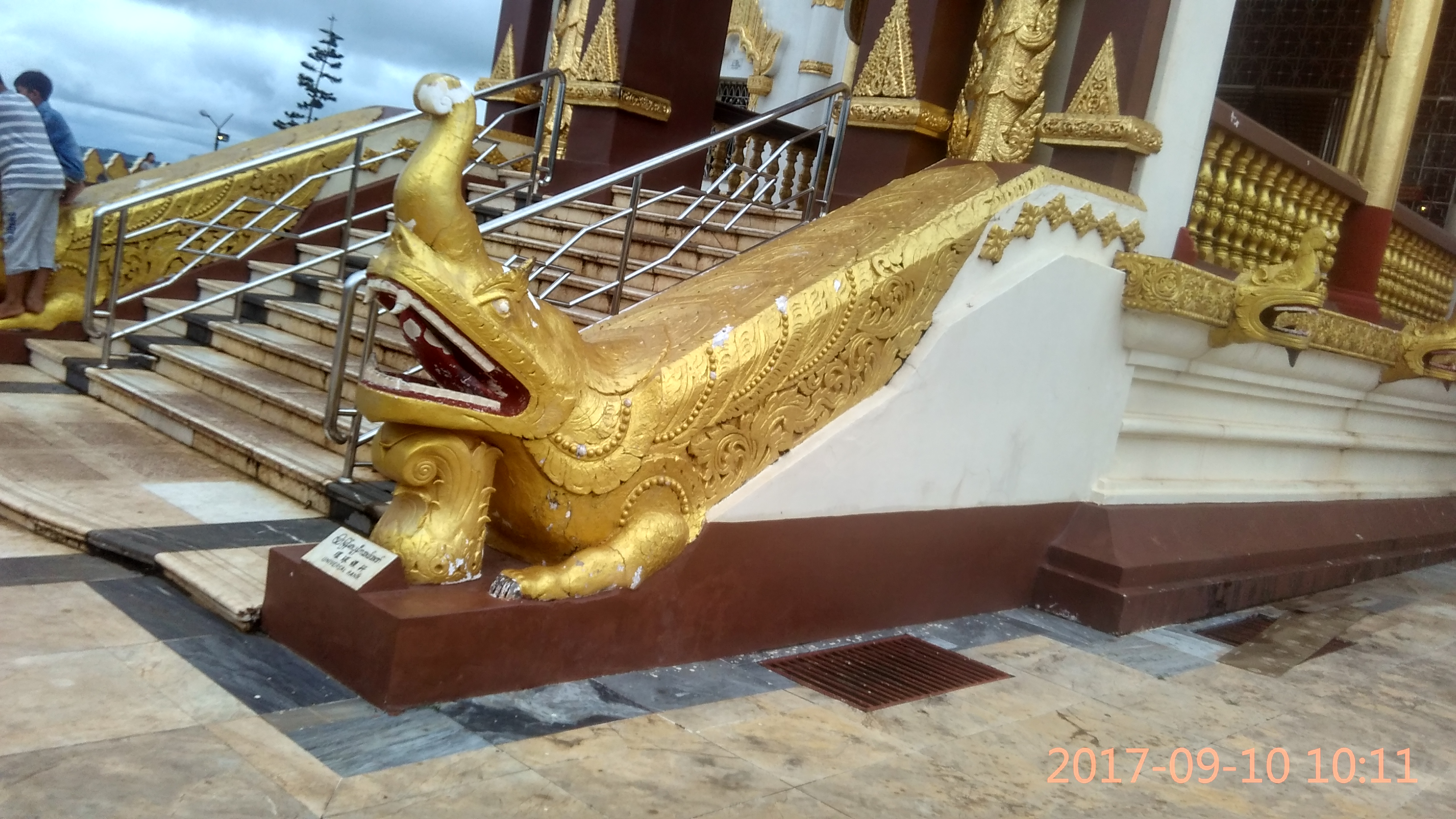 Art in Maha Ant Htoo Kan Thar မြန်မာဘာသာ: မန္တလေးတိုင်းဒေသကြီးအတွင်းရှိသည့် မဟာအံ့ထူးကံသာဆုတောင်းပြည့်မြတ်စွာဘုရားကြီးရှိ ဗိသုကာလက်ရာတစ်ခု။